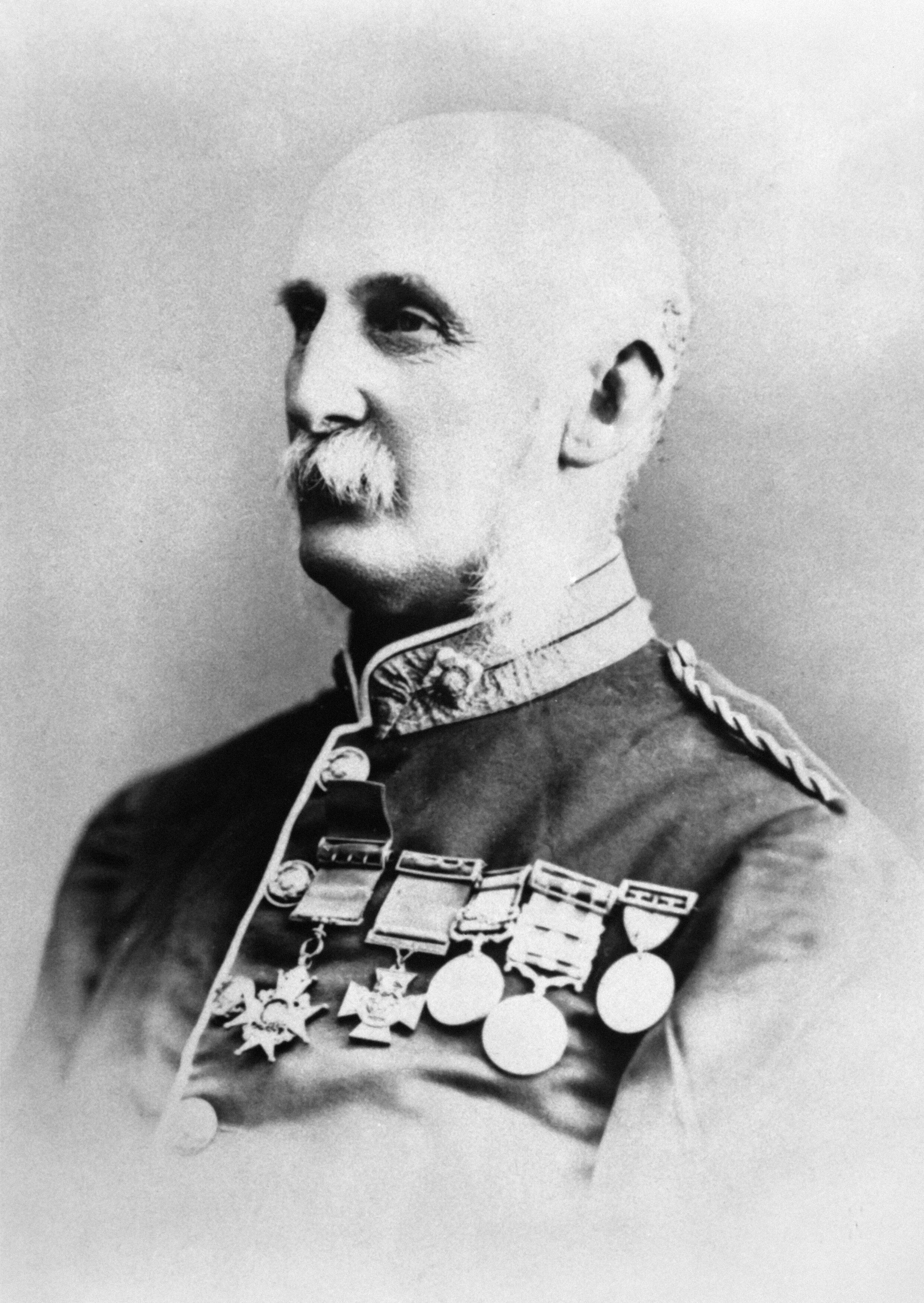 Victoria Cross Winners of the Indian Mutiny 1857 - 1858 Portrait of John Christopher Guise, awarded the Victoria Cross: Indian Mutiny, 16/17 November 1857.